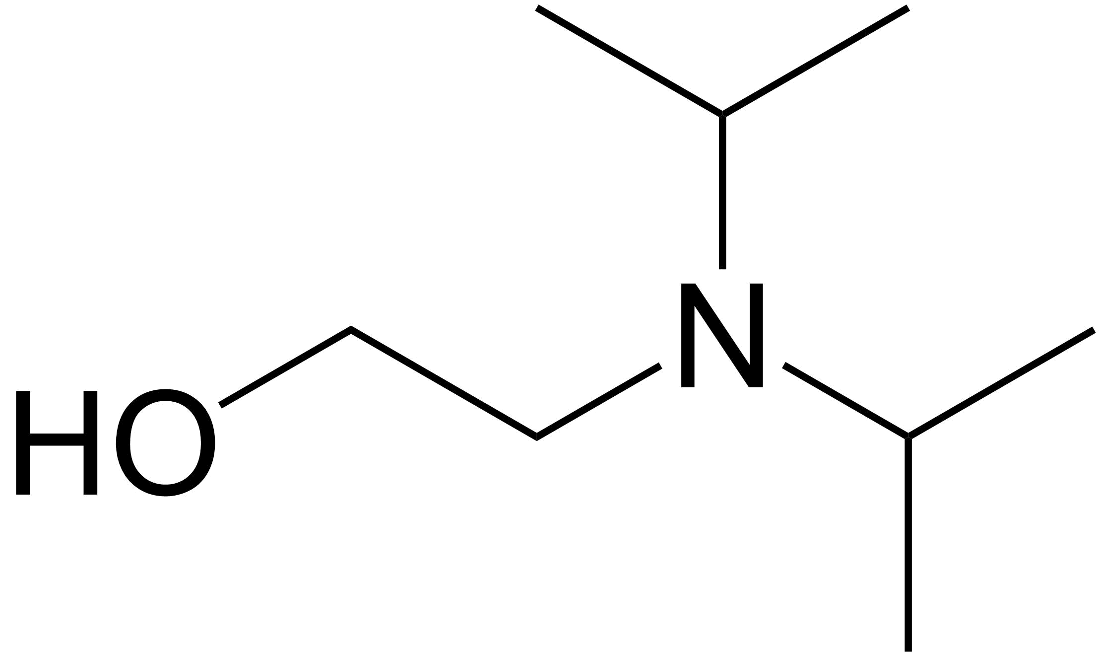 N,N-Diisopropylaminoethanol 2D molecular structure